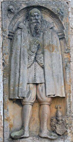 Old tomb memorial slabs of our family Schierer von Waldhaimb zu Falknov mostly 15th century in Bohemia.